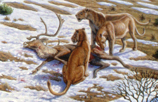 A late Pleistocene landscape in northern Spain with European cave lions (Panthera leo spelaea) with a reindeer carcass. (Information according to the caption of the same image in Alan Turner (2004) National Geographic Prehistoric Mammals, Washington, D.C.: National Geographic ISBN 9780792271345, ISBN 9780792269977)